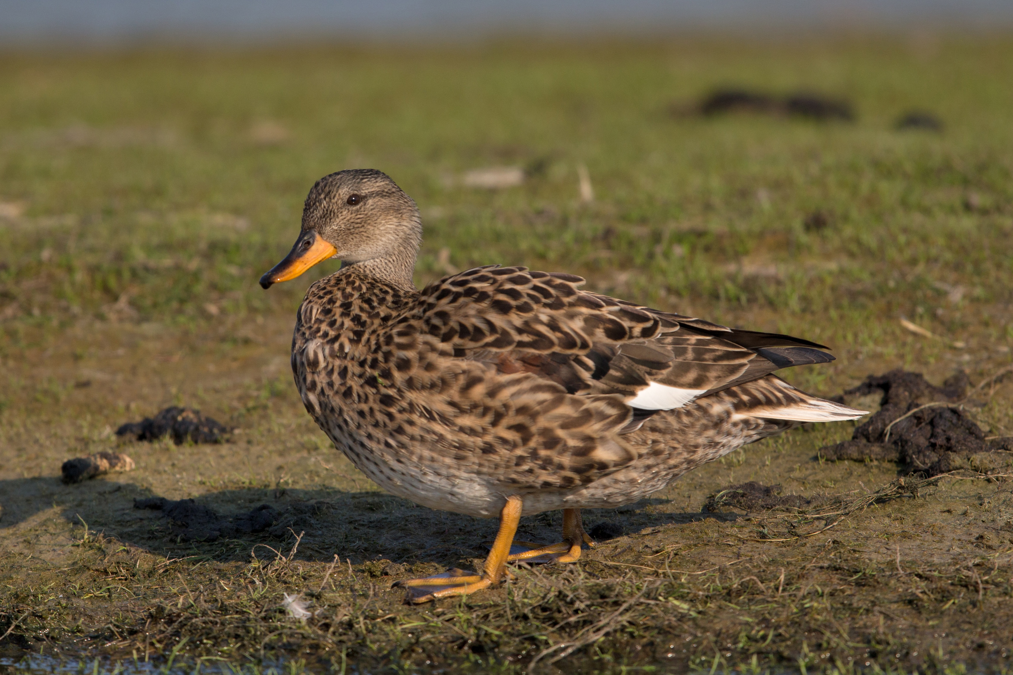 female Gadwall